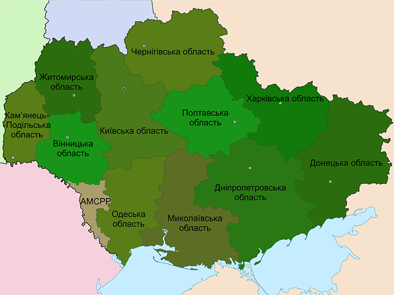 Map of division of Ukrainian SSR in 1937—1938